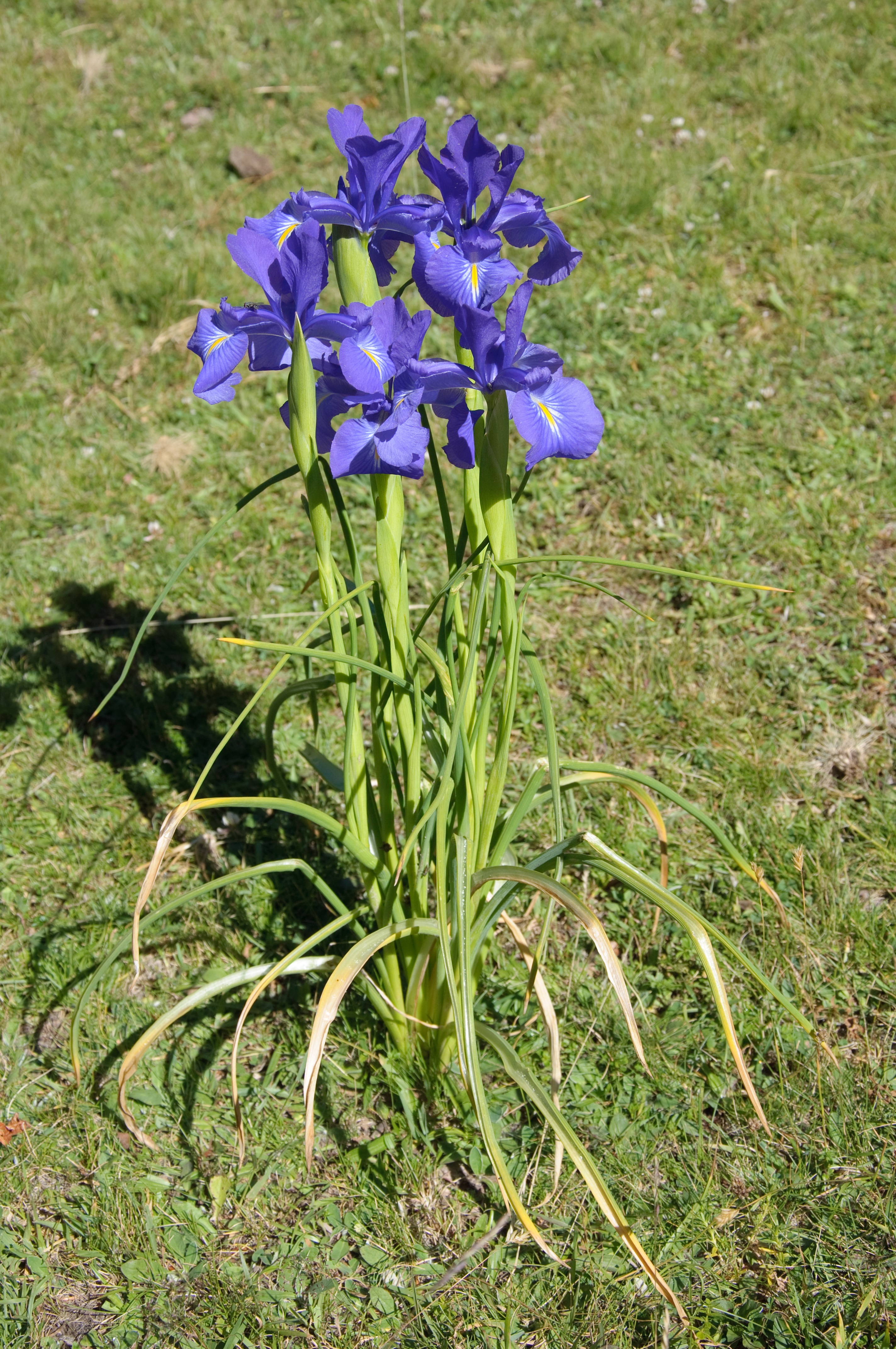 English Iris (Iris latifolia), towards the lakes of Ayous in the Pyrenees.